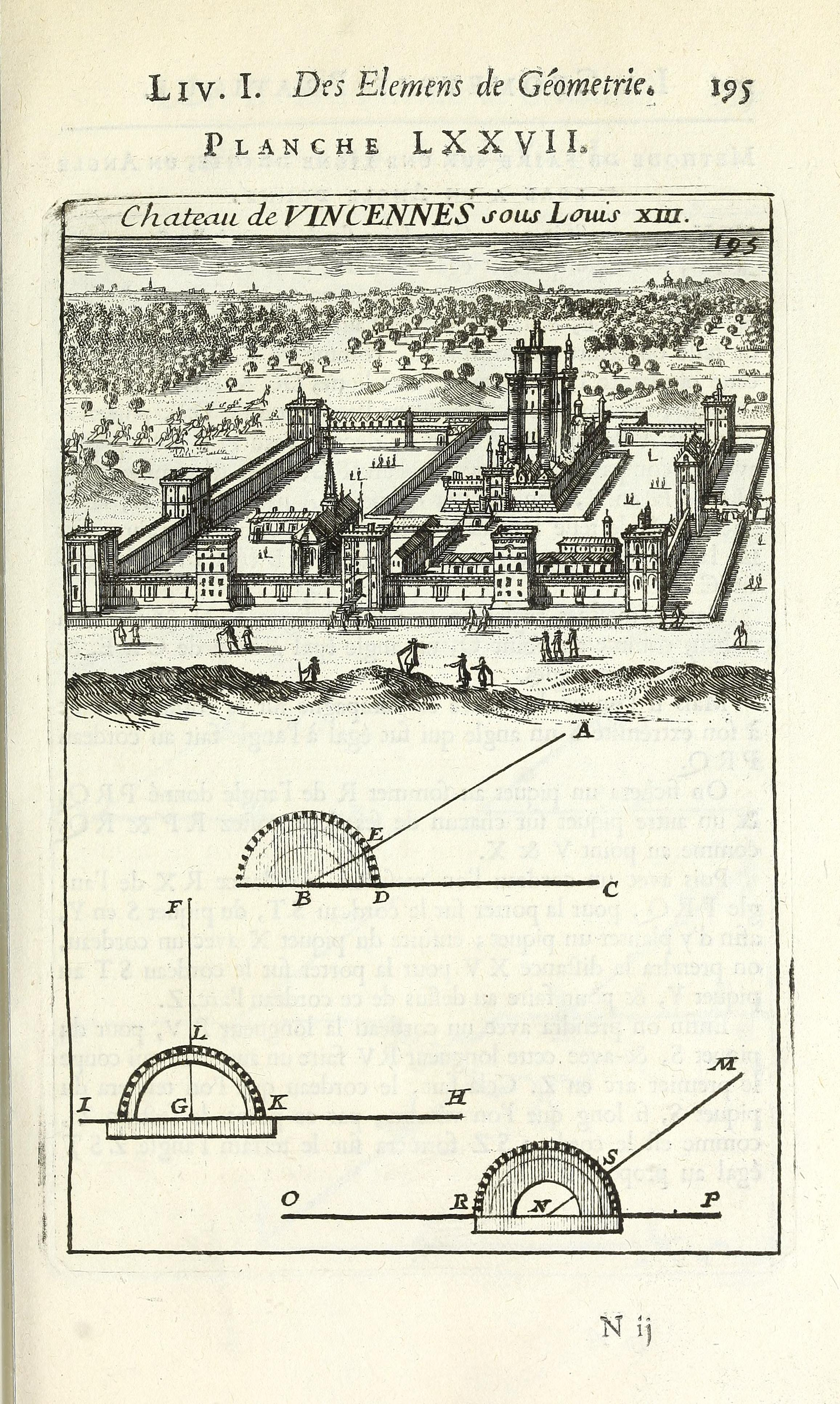 Chateau de Vincennes